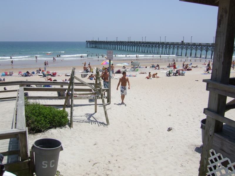 The beach at Surf City, North Carolina.